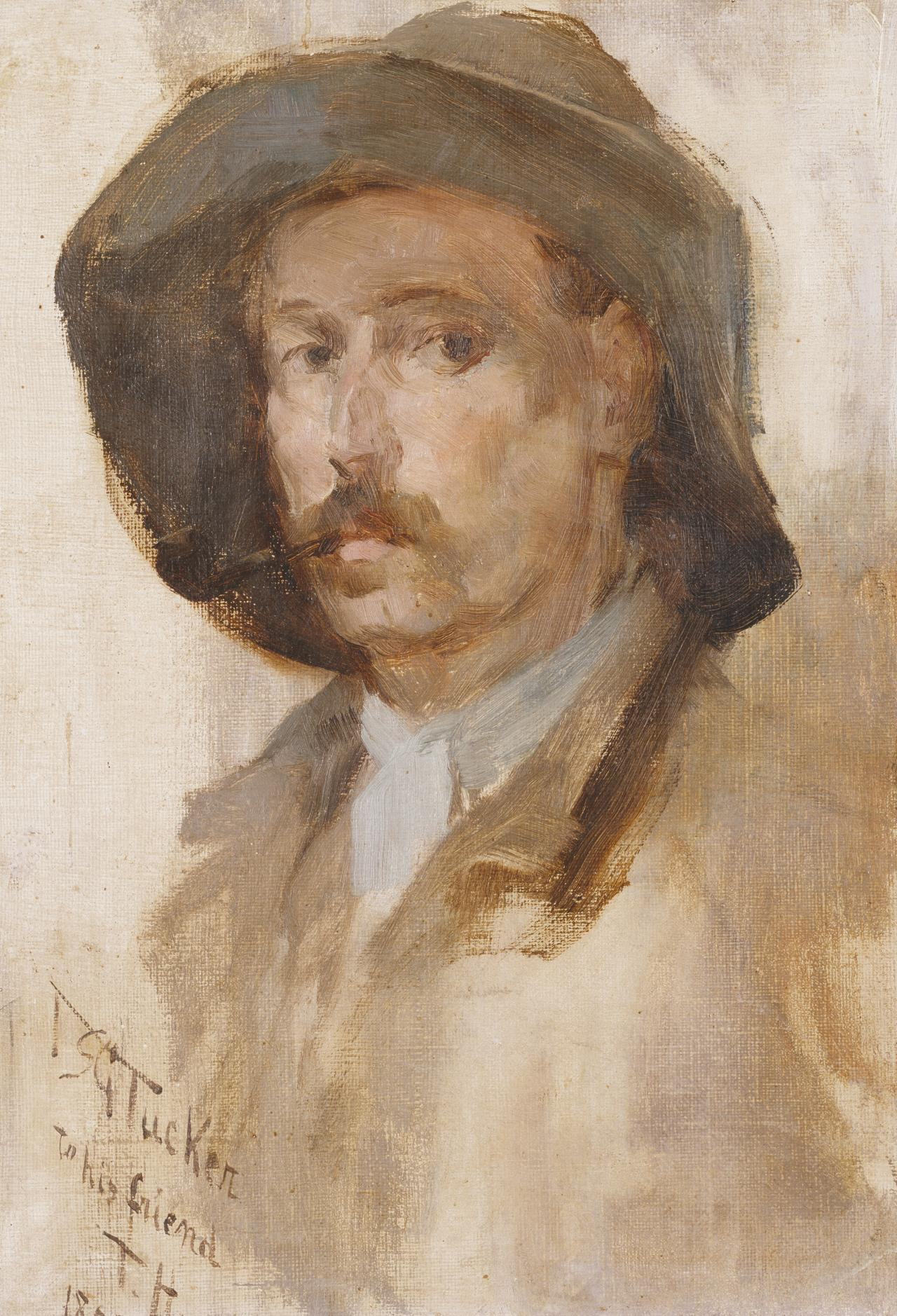 Portrait of Australian artist Tom Humphrey by Tudor St George Tucker, oil on canvas, 22.5 × 19.5 cm.